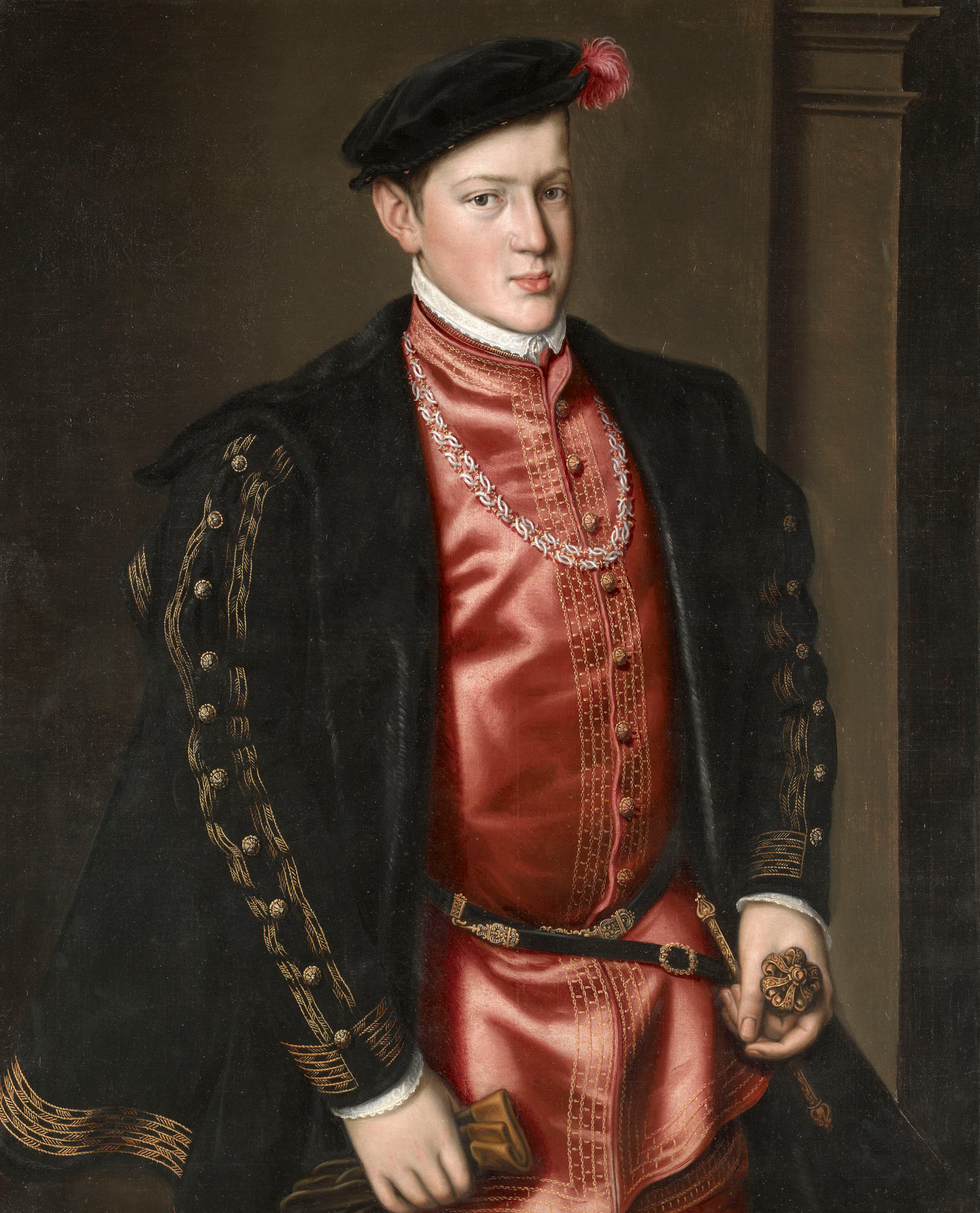 Portrait of João Manuel, Prince of Portugal (1537-1554)